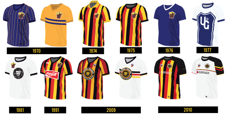 Football kits used by UdG